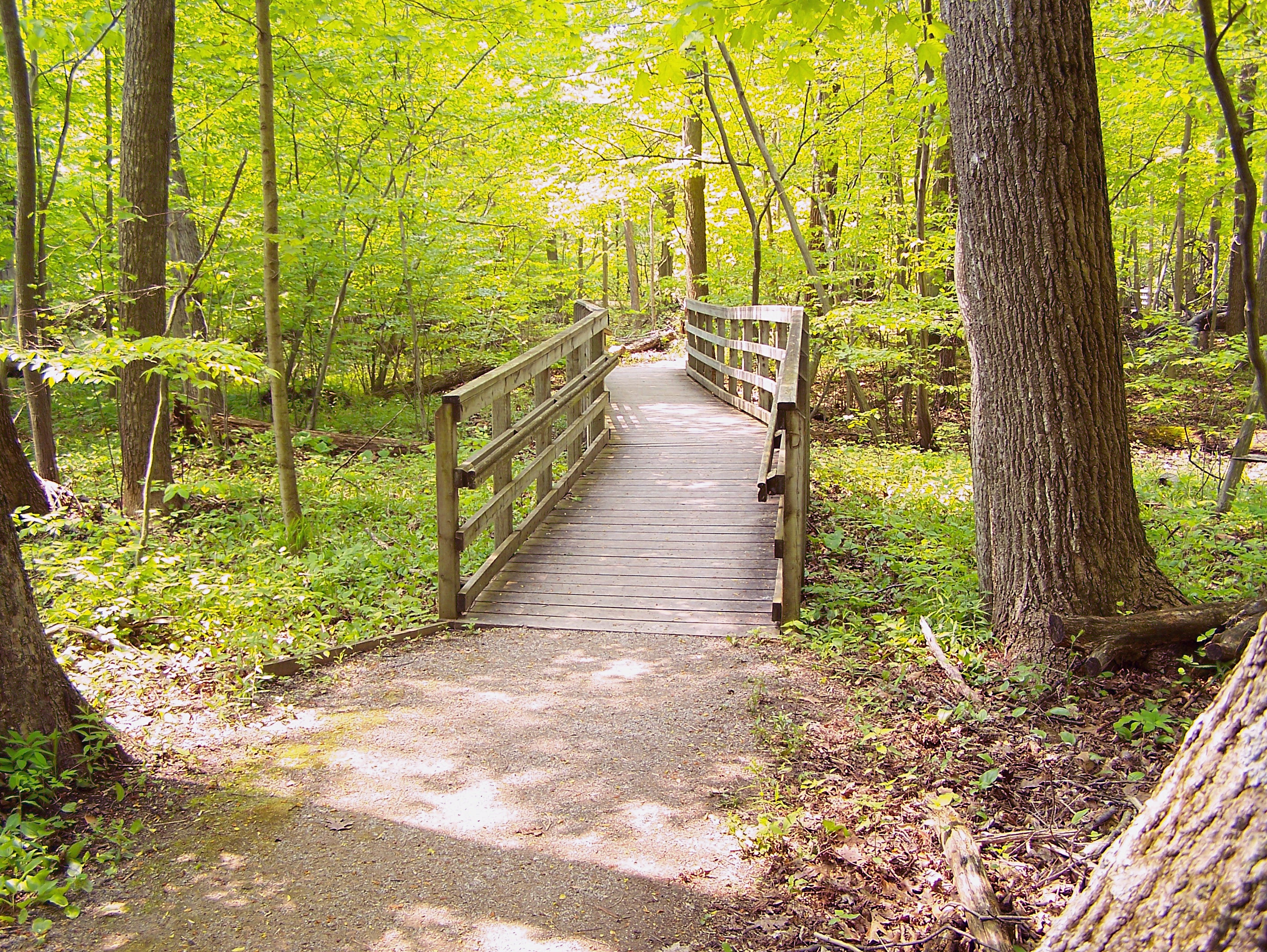 Rondeau Provincial Park in May 2007